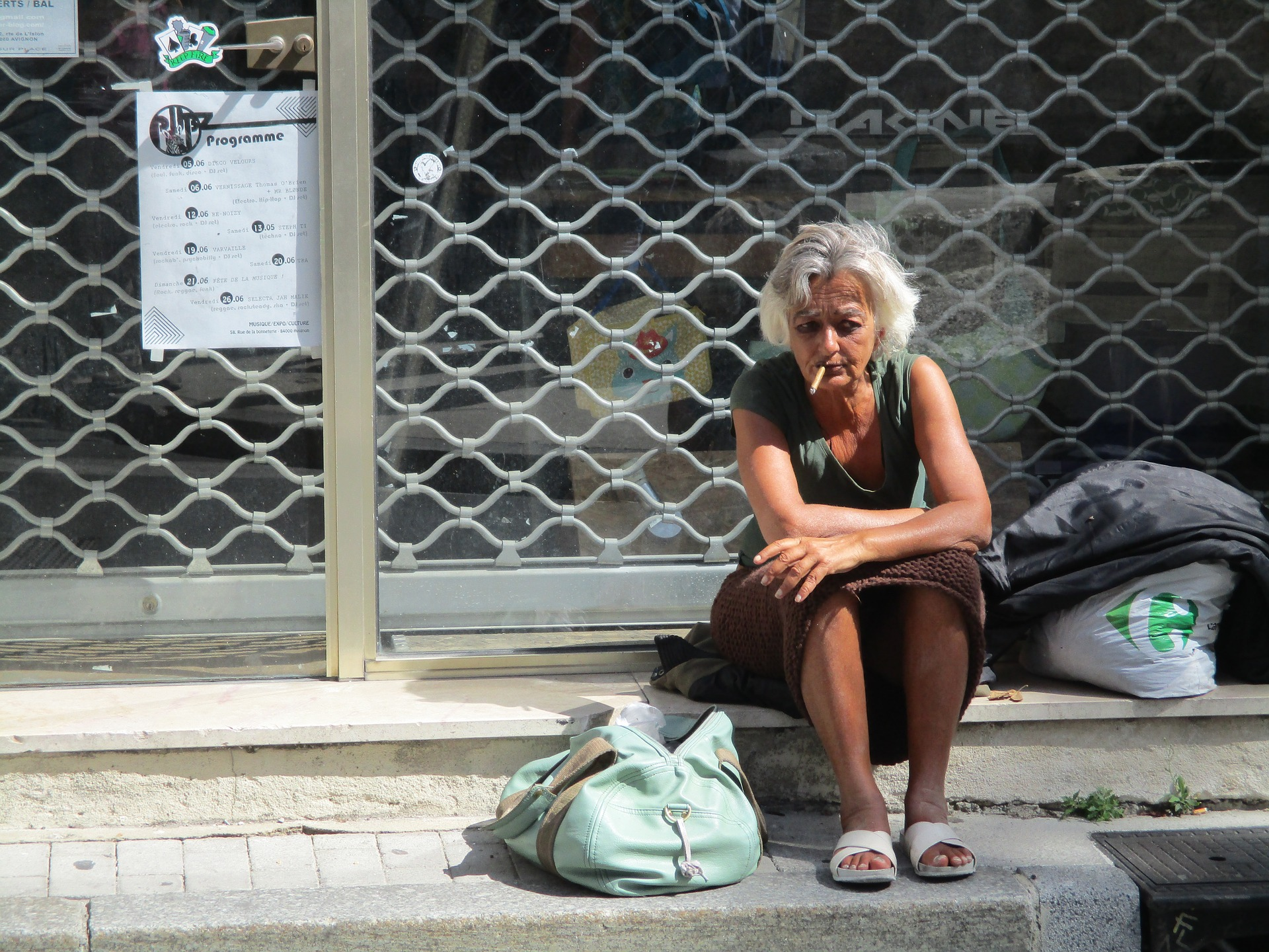 Sad homeless woman sitting with a cigaret in her mouth